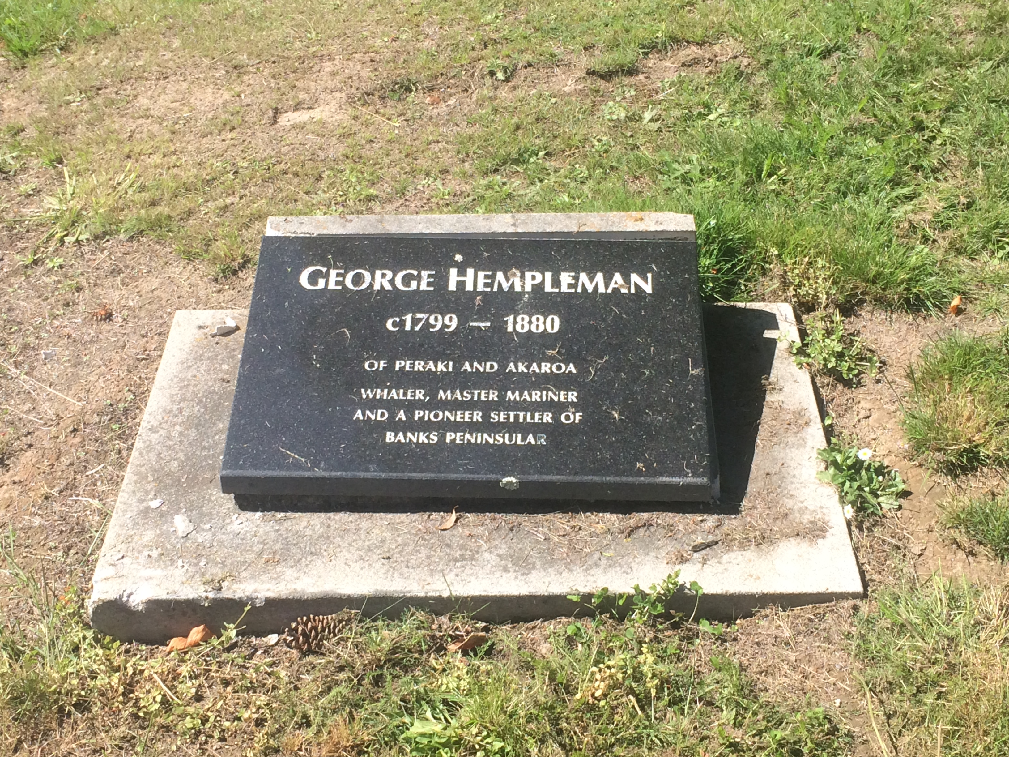 Akaroa Cemetery in March 2018